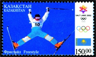 Stamp of Kazakhstan